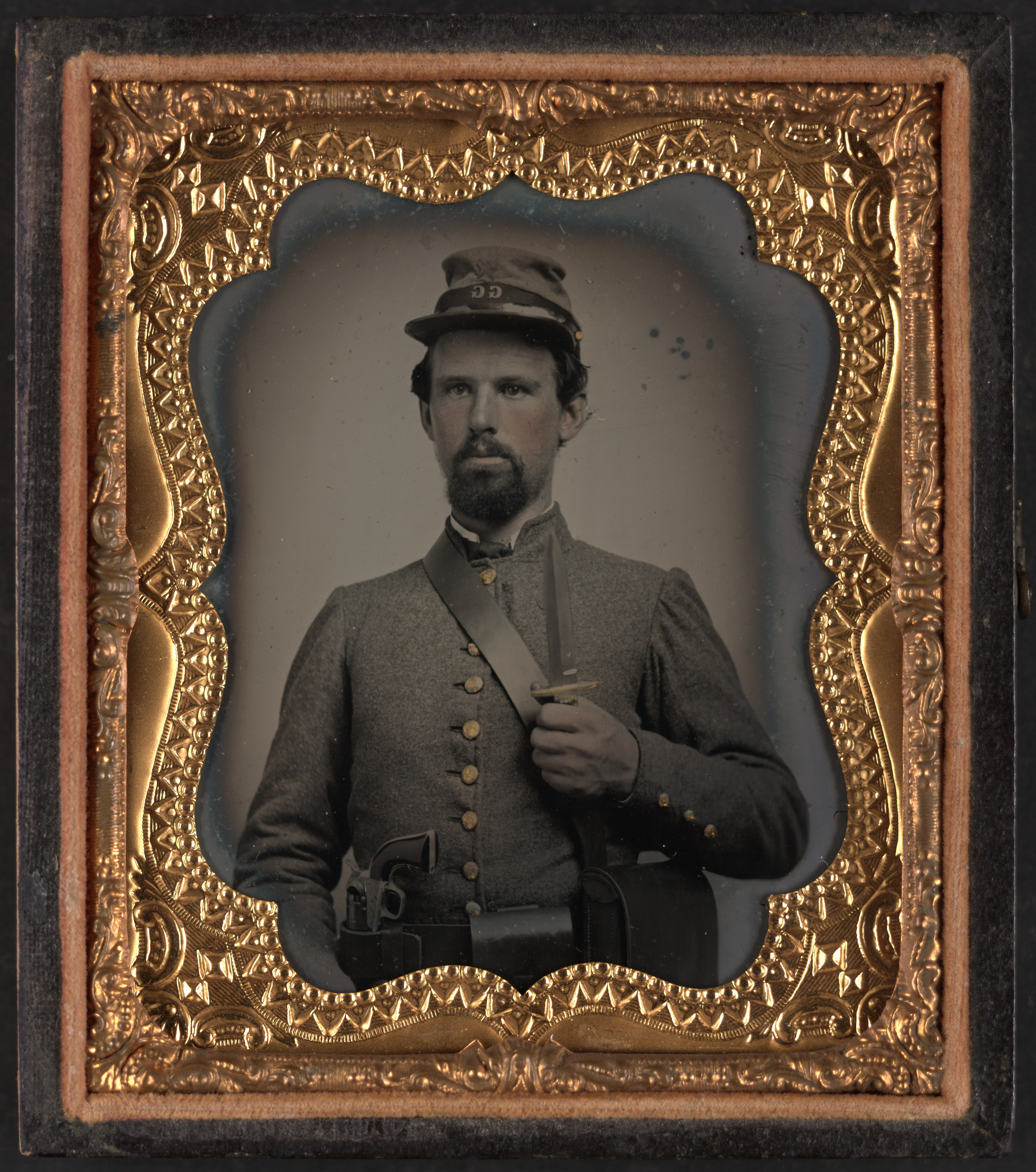 Title: Corporal Edward Lindsey Clarke of Co. F, 23rd Virginia Infantry Regiment in uniform with revolver and dagger Abstract/medium: 1 photograph : hand-colored ambrotype ; plate 83 x 70 mm (sixth plate format), case 93 x 82 mm.